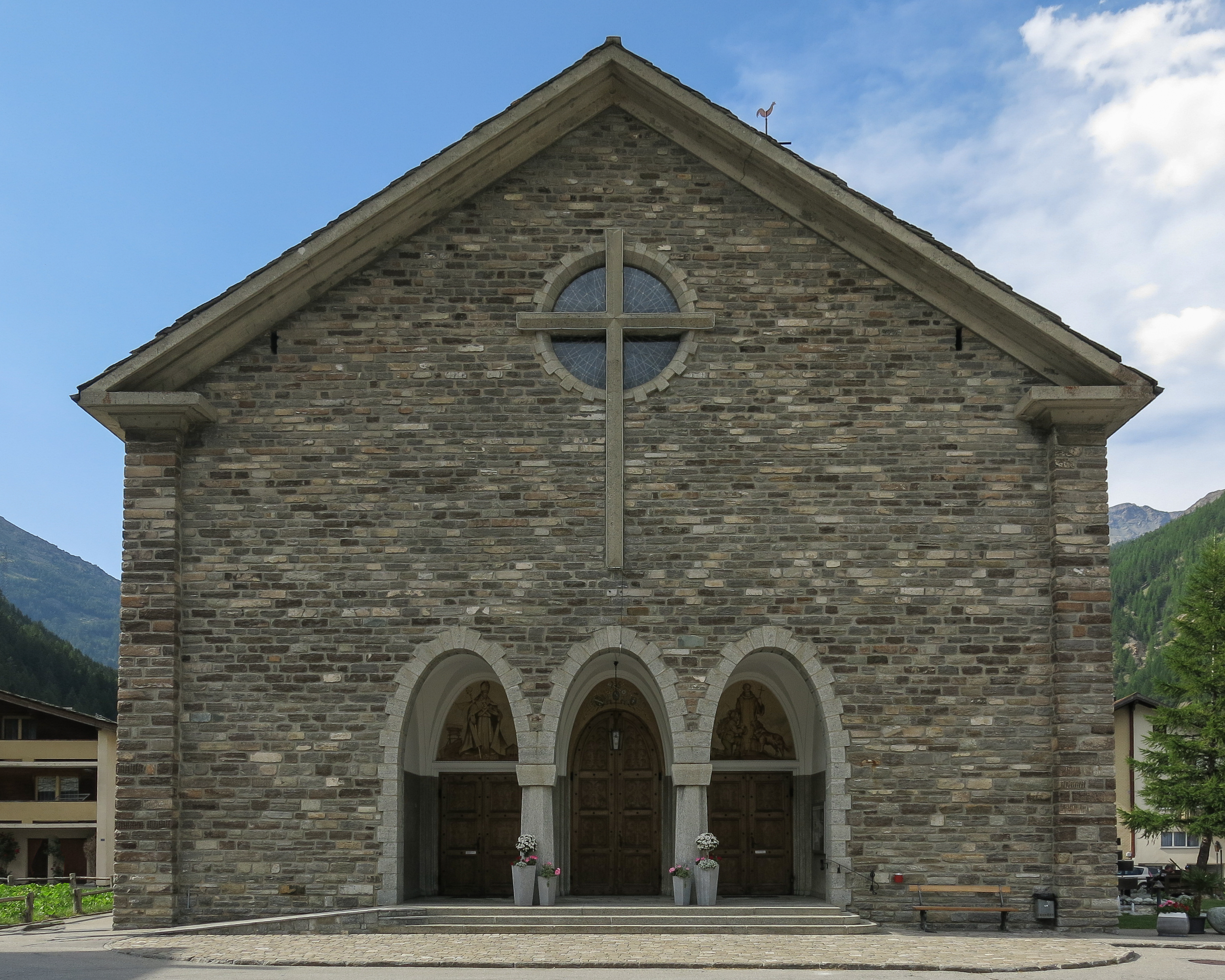 Church St. Bartholomäus, Front side, Saas-Grund, Canton of Valais, Switzerland, Europe